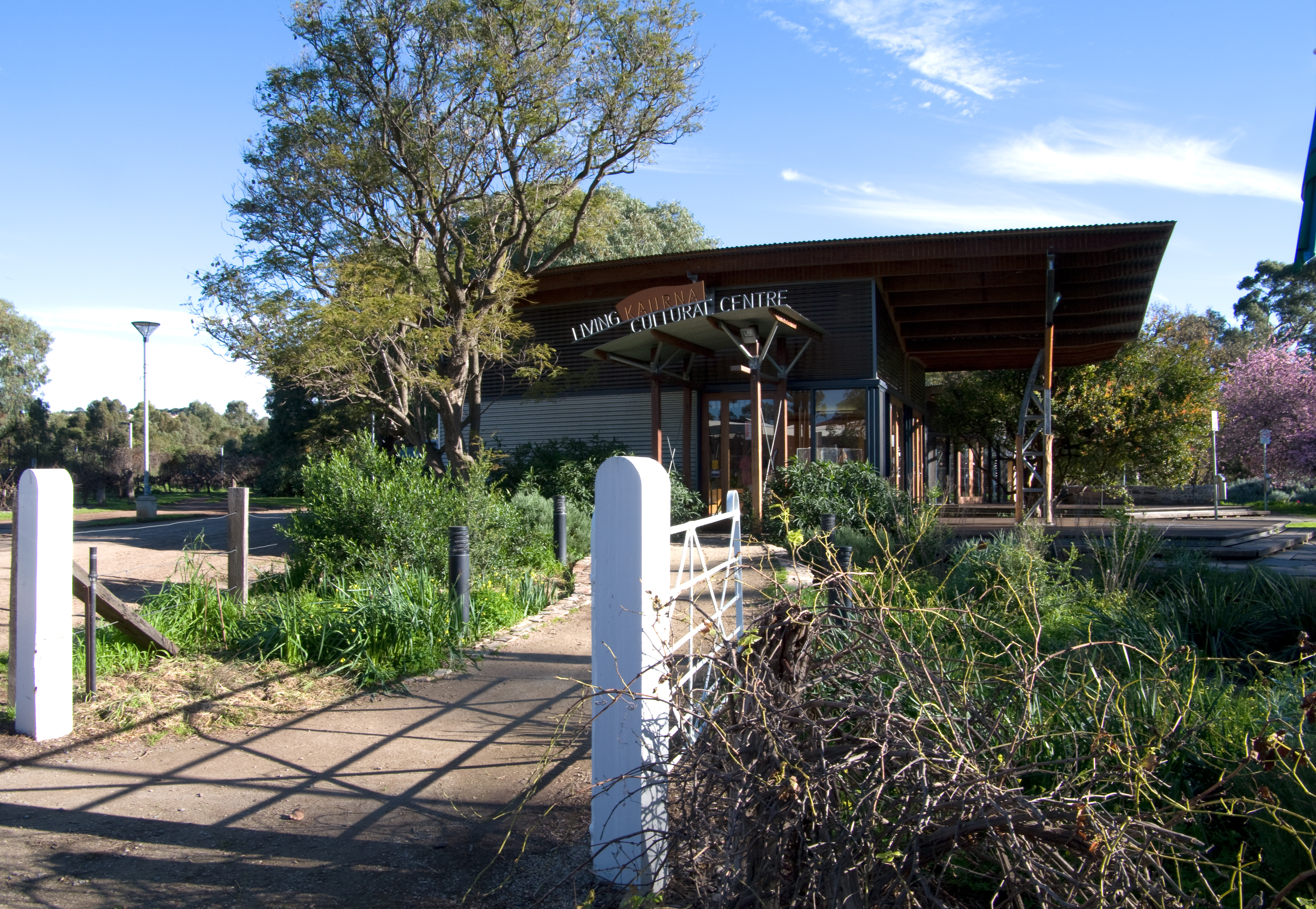 Opened in September, 2002, the Living Kaurna Cultural Centre was the result of over nine years of negotiation between Marion Council and the Kaurna people. Located at Warriparinga in South Australia, the site incorporates a gift shop, gallery and cafe, and serves to educate people about the Kaurna culture.